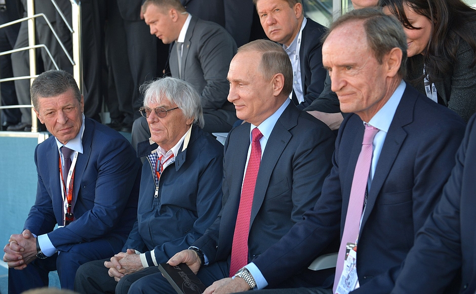 Ecclestone and Putin at the 2016 Russian Grand Prix